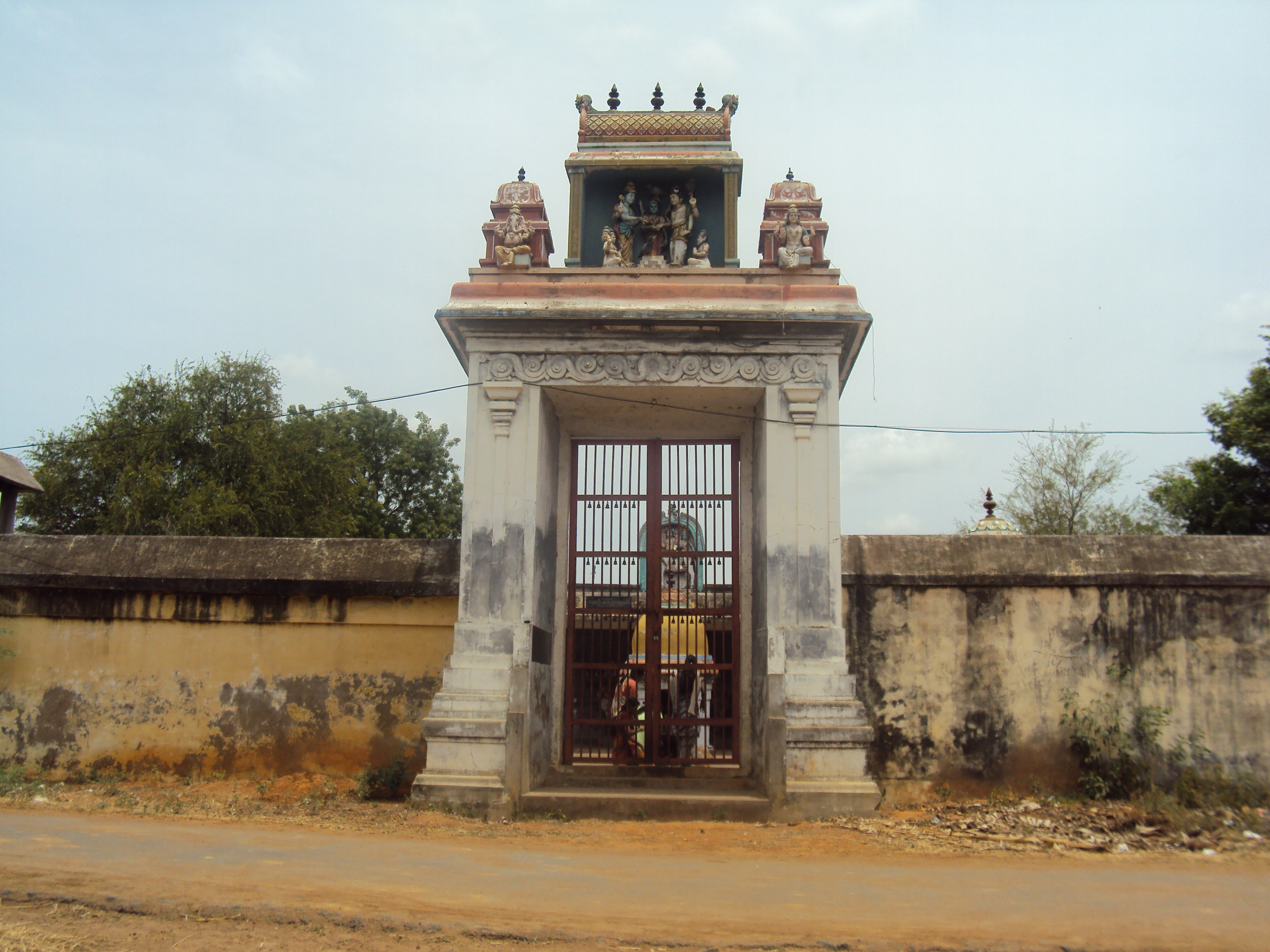 Ullikkottai Sivan Temple-Front view,அருள்மிகு சிவன் கோவில்,உள்ளிக்கோட்டை-முகப்புத்தோற்றம்